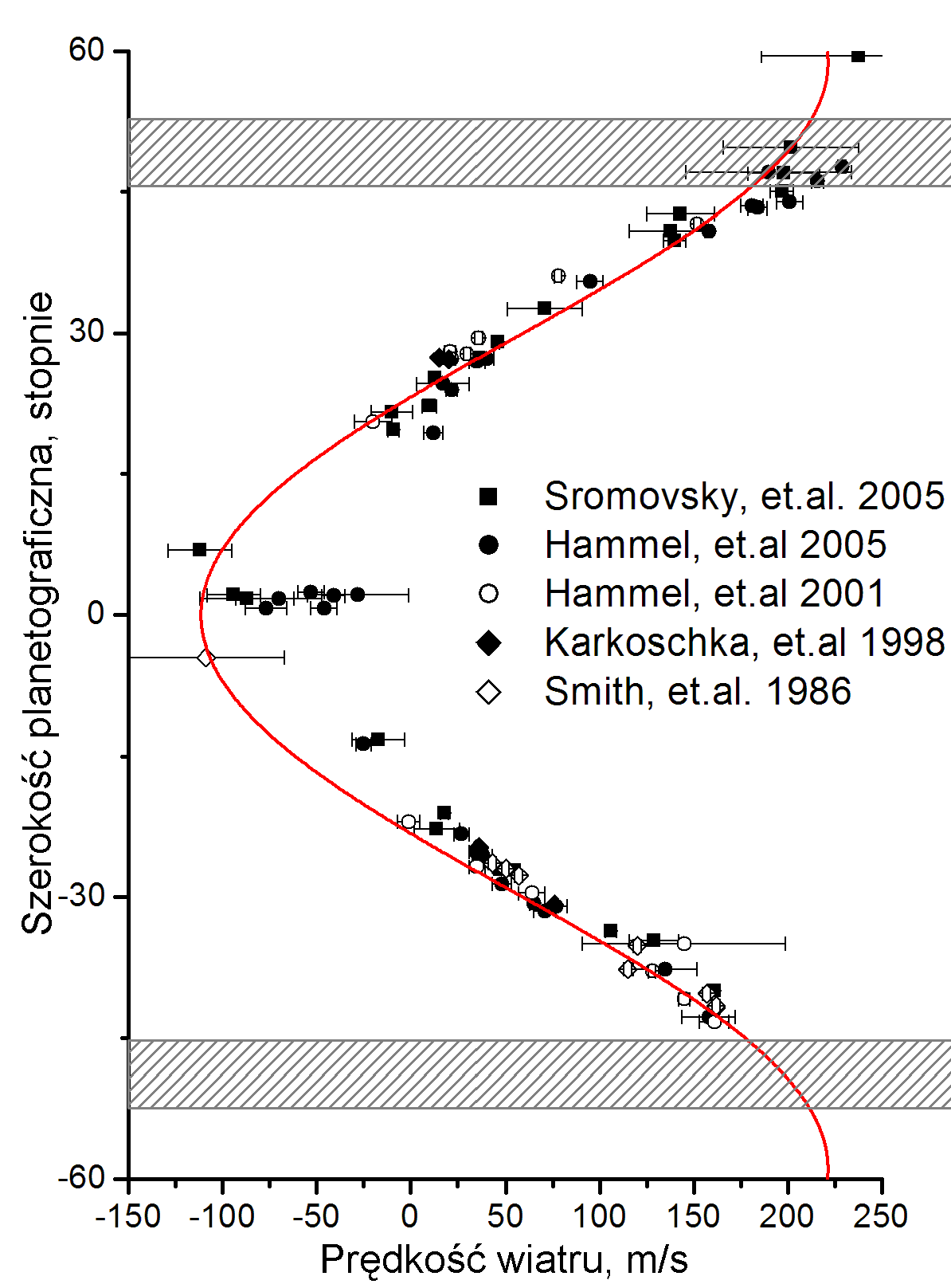 The figure shows zonal winds on Uranus as listed in. (Shaded areas show southern collar and its future northern counterpart. The red curve is a symmetrical fit from Sromovsky et.al 2005.) Hammel, H.B.; Rages, K.; Lockwood, G.W.; et.al. (2001). "New Measurements of the Winds of Uranus". Icarus 153: 229-235. (Table II), in the figure Smith et.al. 1986, Karkoschka et.al.1998, Hammel et.al.2001. Hammel, H.B.; de Pater, I.; Gibbard, S.; et.al. (2005). "Uranus in 2003: Zonal winds, banded structure, and discrete features" (pdf). Icarus 175: 534-545. (Table 3), in the figure Hammel et.al. 2005) Sromovsky, L.A.; Fry, P.M. (2005). "Dynamics of cloud features on Uranus". Icarus 179: 459-483. (Table 7), in the figure Sromovsky et.al 2005